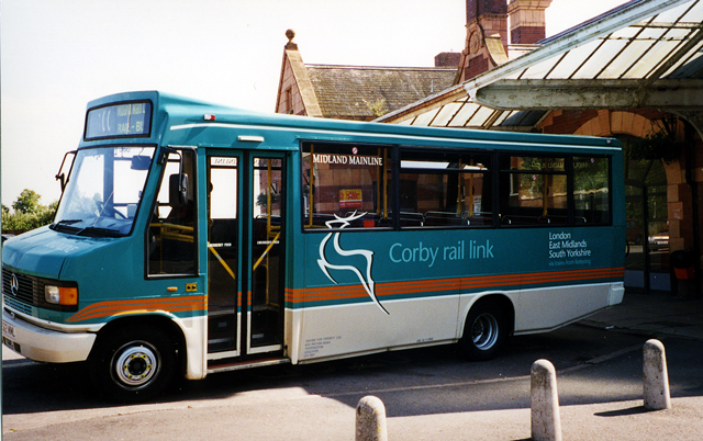 Corby Rail Link, Kettering. A Mercedes midibus, in the attractive Midland Mainline livery, that operated the Corby Rail Link at Kettering railway station. Taken in 2004, this is another livery now consigned to history.